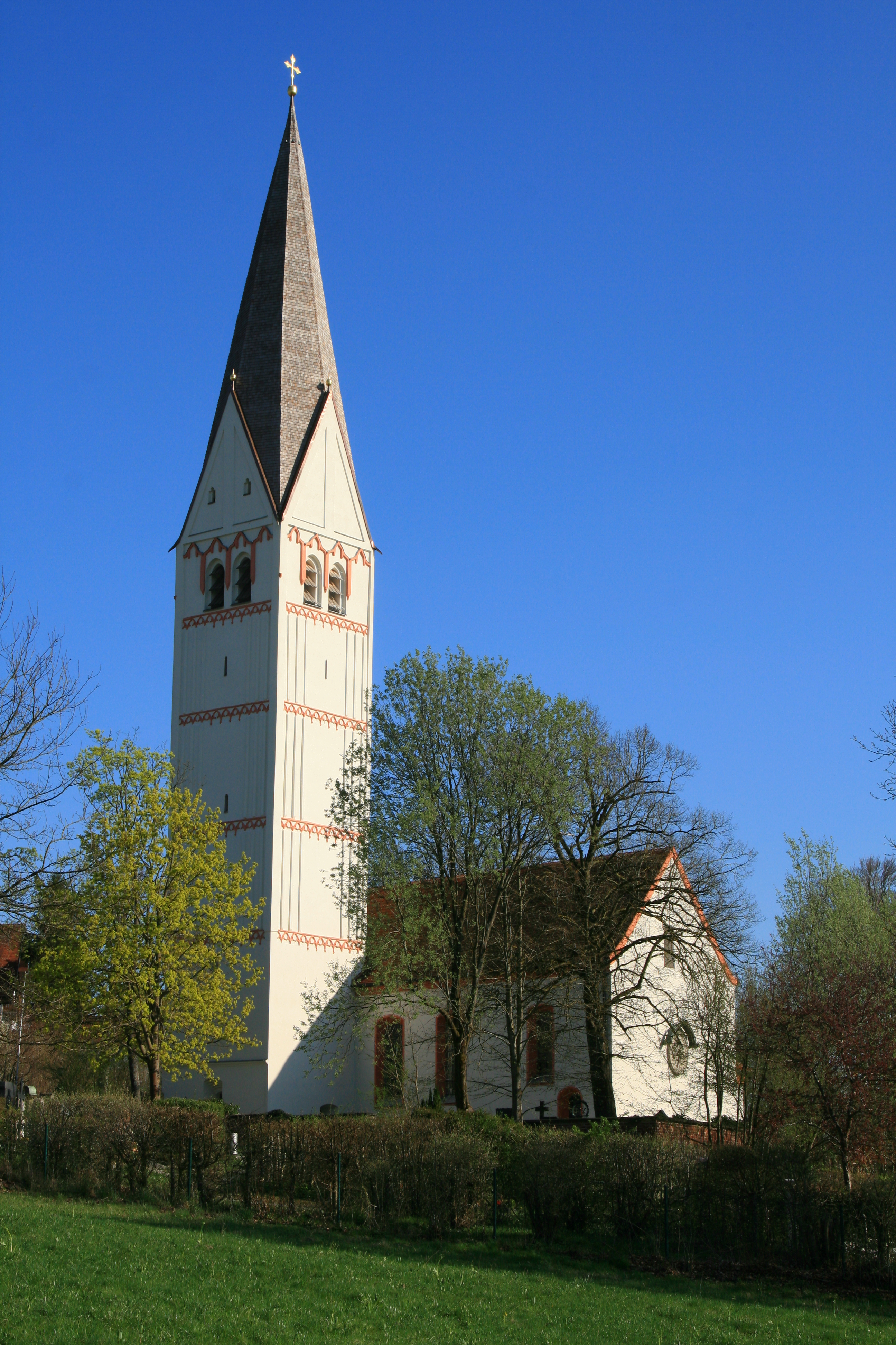 Church Mariae Himmelfahrt in Höfen - Grafrath, Upper Bavaria, Germany built in the beginning of 15th century.